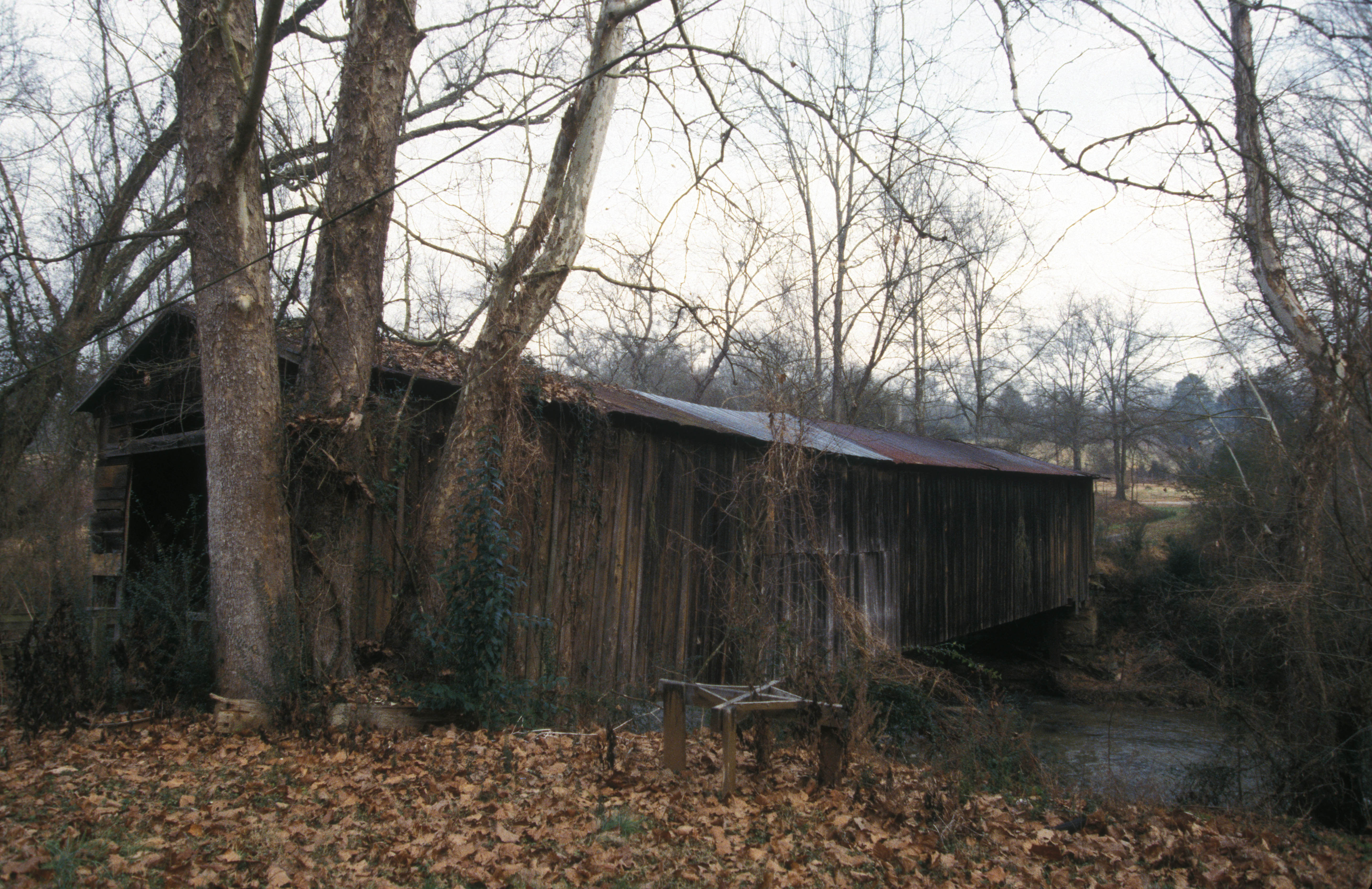 Cromer's Mill Covered Bridge; 1906 town truss over Nails Creek; 110 feet long.